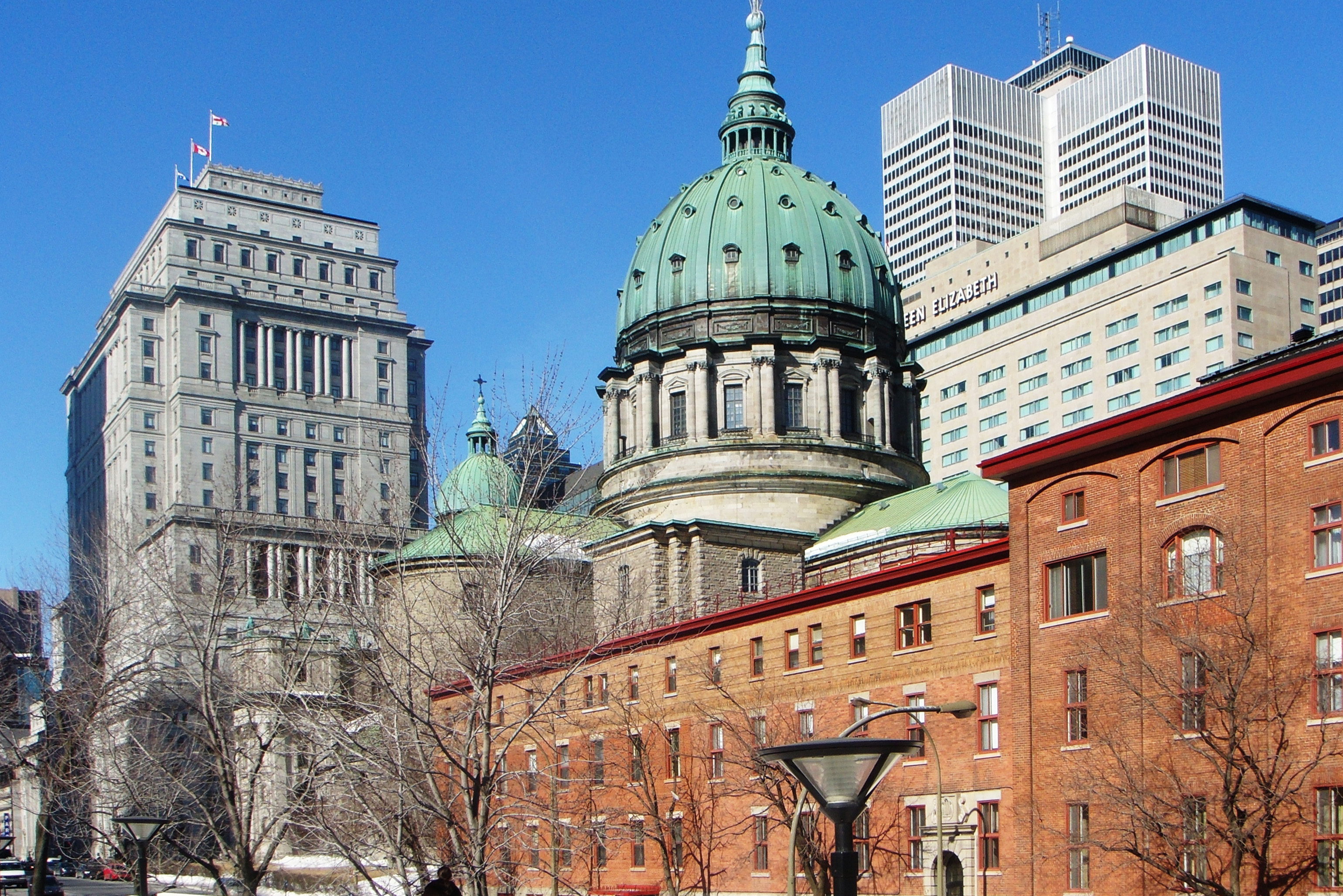 Roman Catholic Archdiocese of Montreal